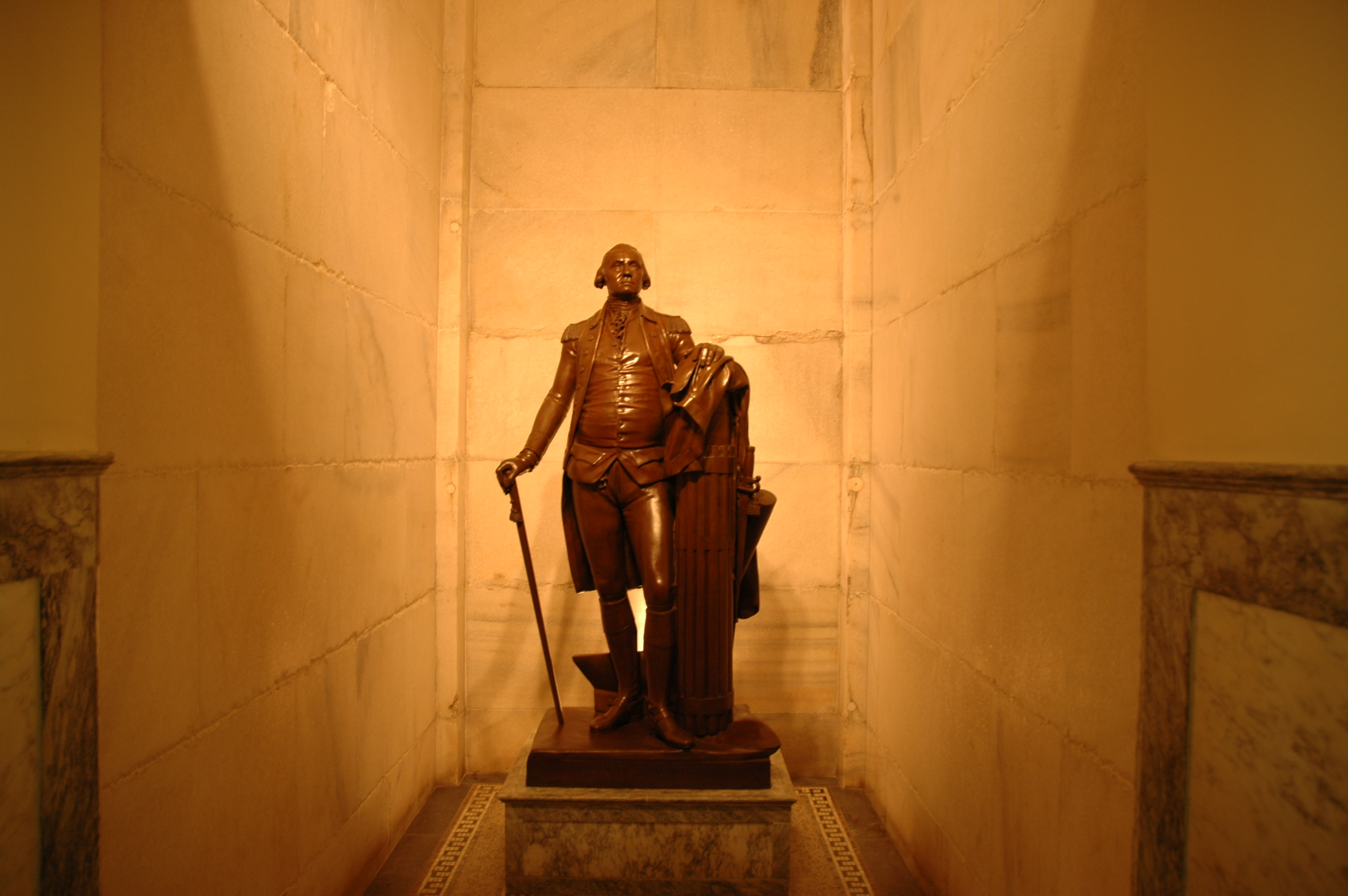 I am the author, and I took this picture inside the monument. The picture is of the George Washington statue next to the bottom floor elevators. I release it to public domain.